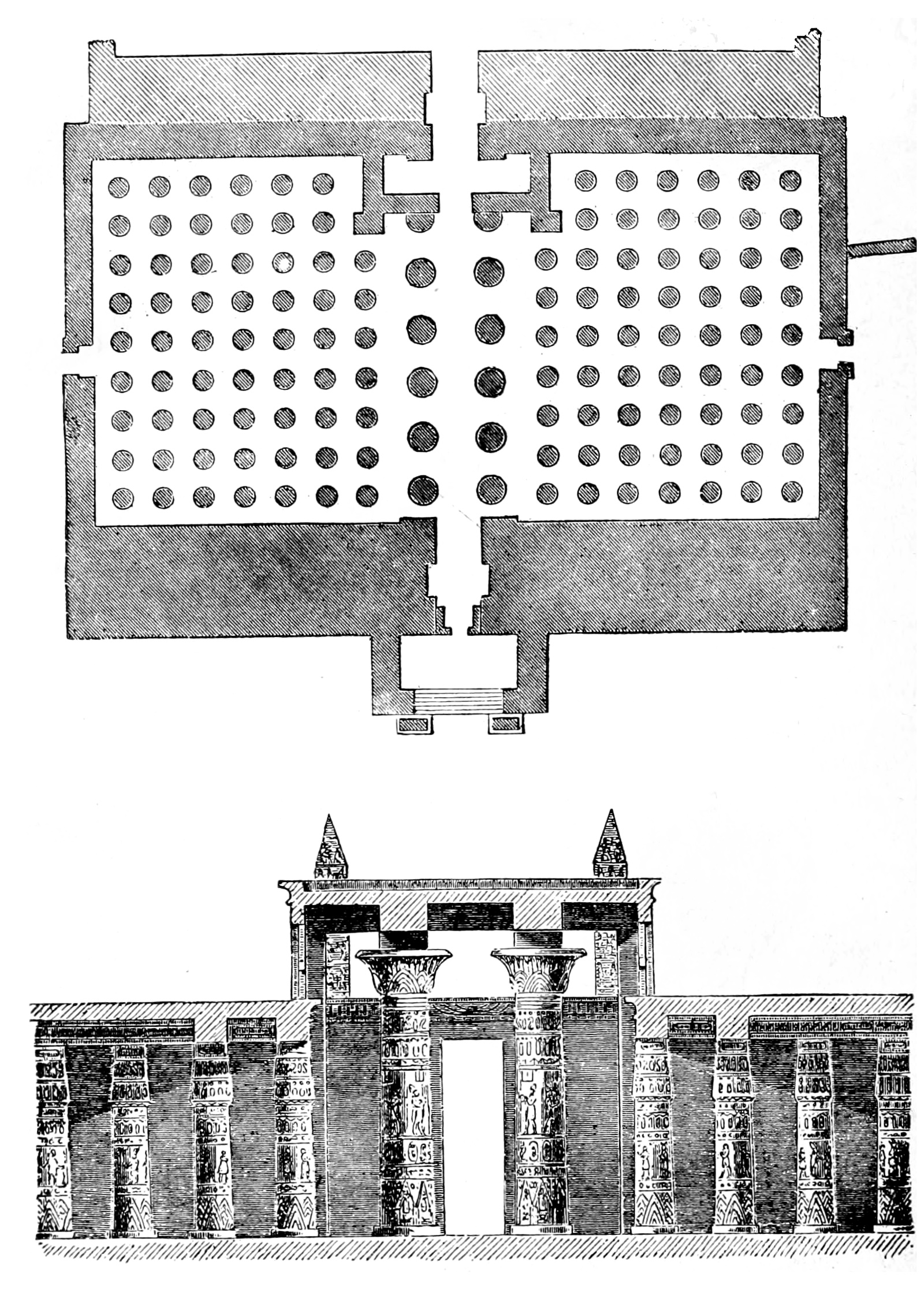 Illustrations from the book, A History of Architecture in All Countries, vol. I. (1887) Written and illustrated by James Fergusson.